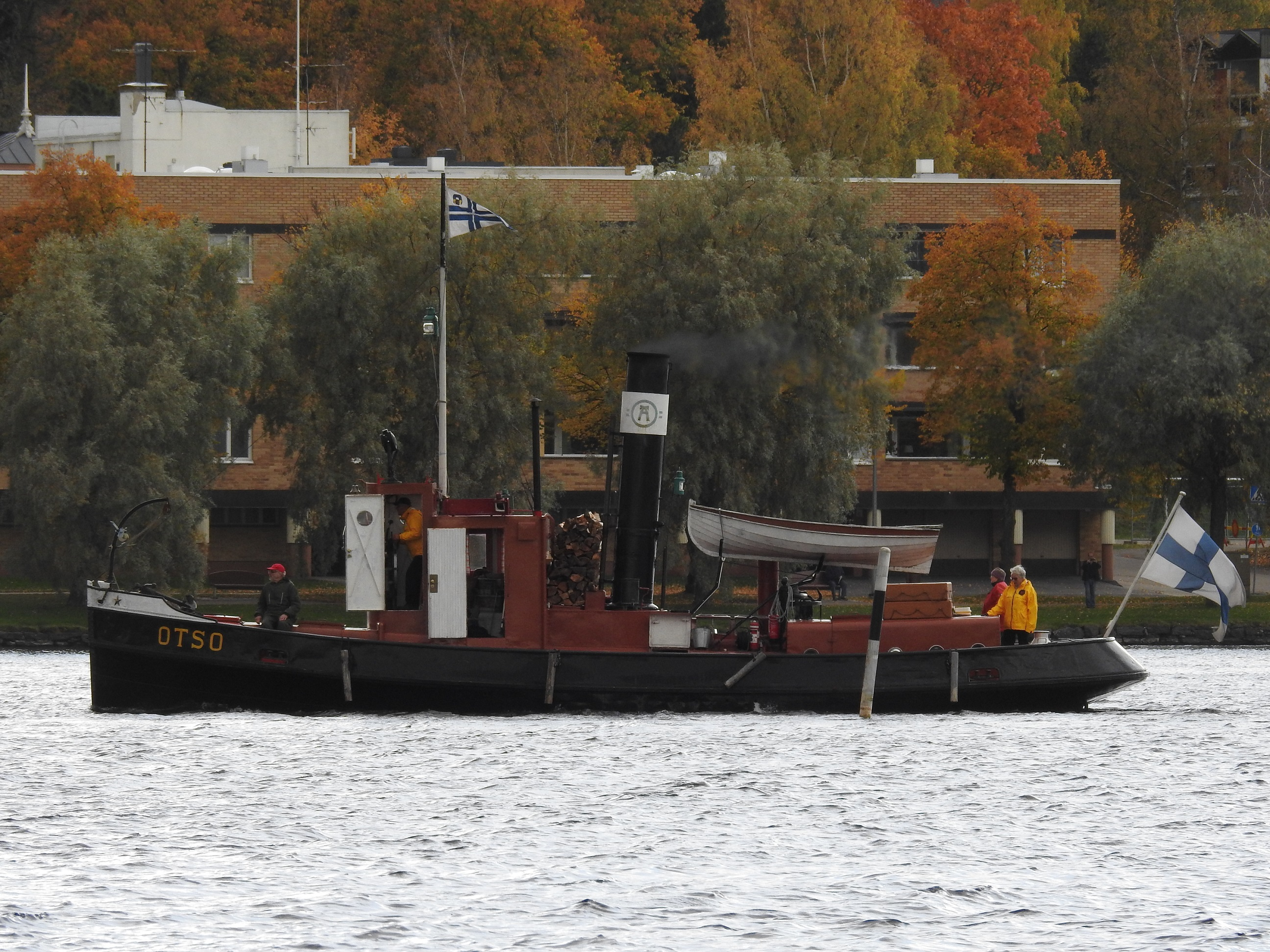 S/S Otso (Pihlajavesi, Karvalakkiregatta 2016)